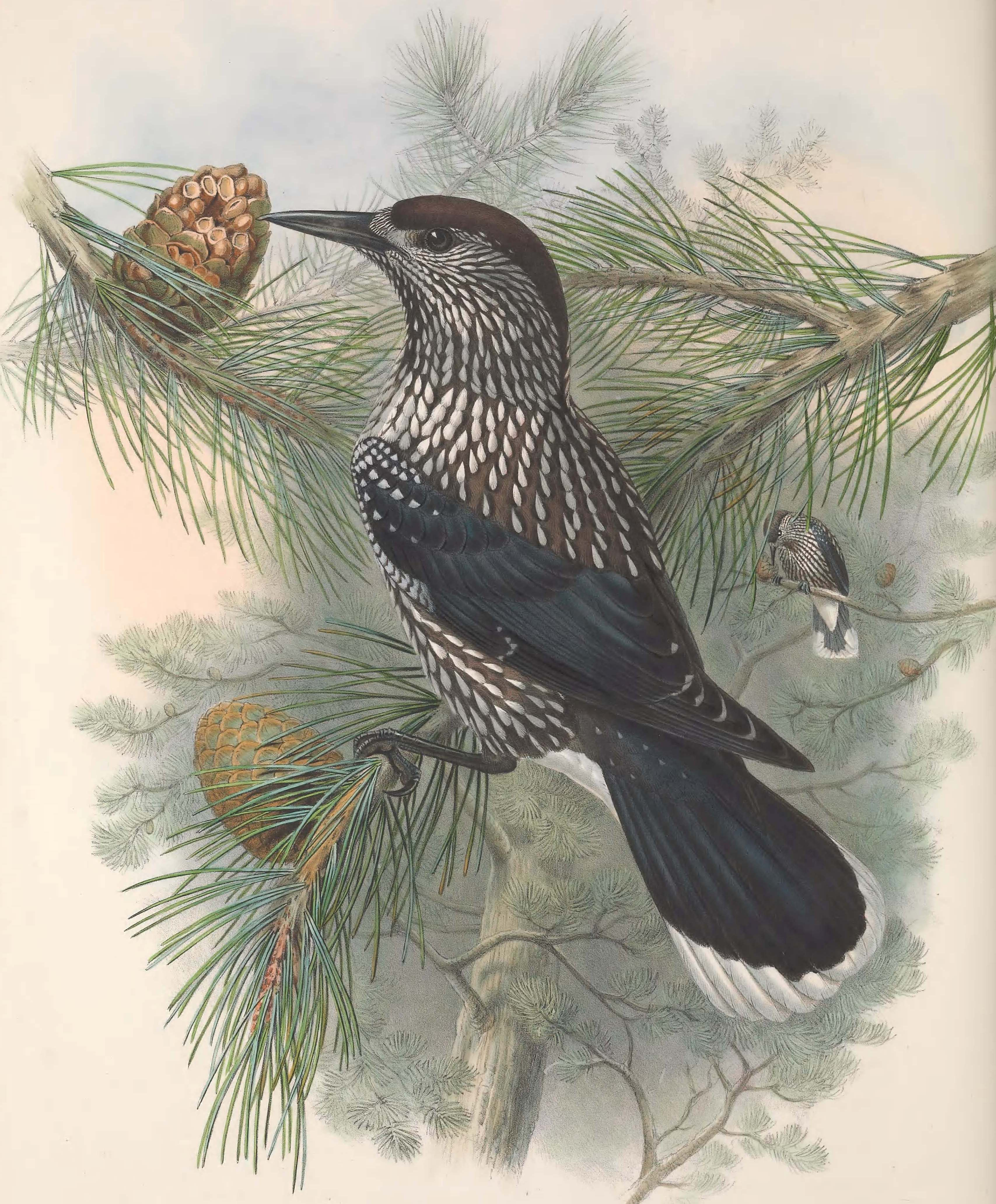 Nucifraga caryocatactes. John Gould